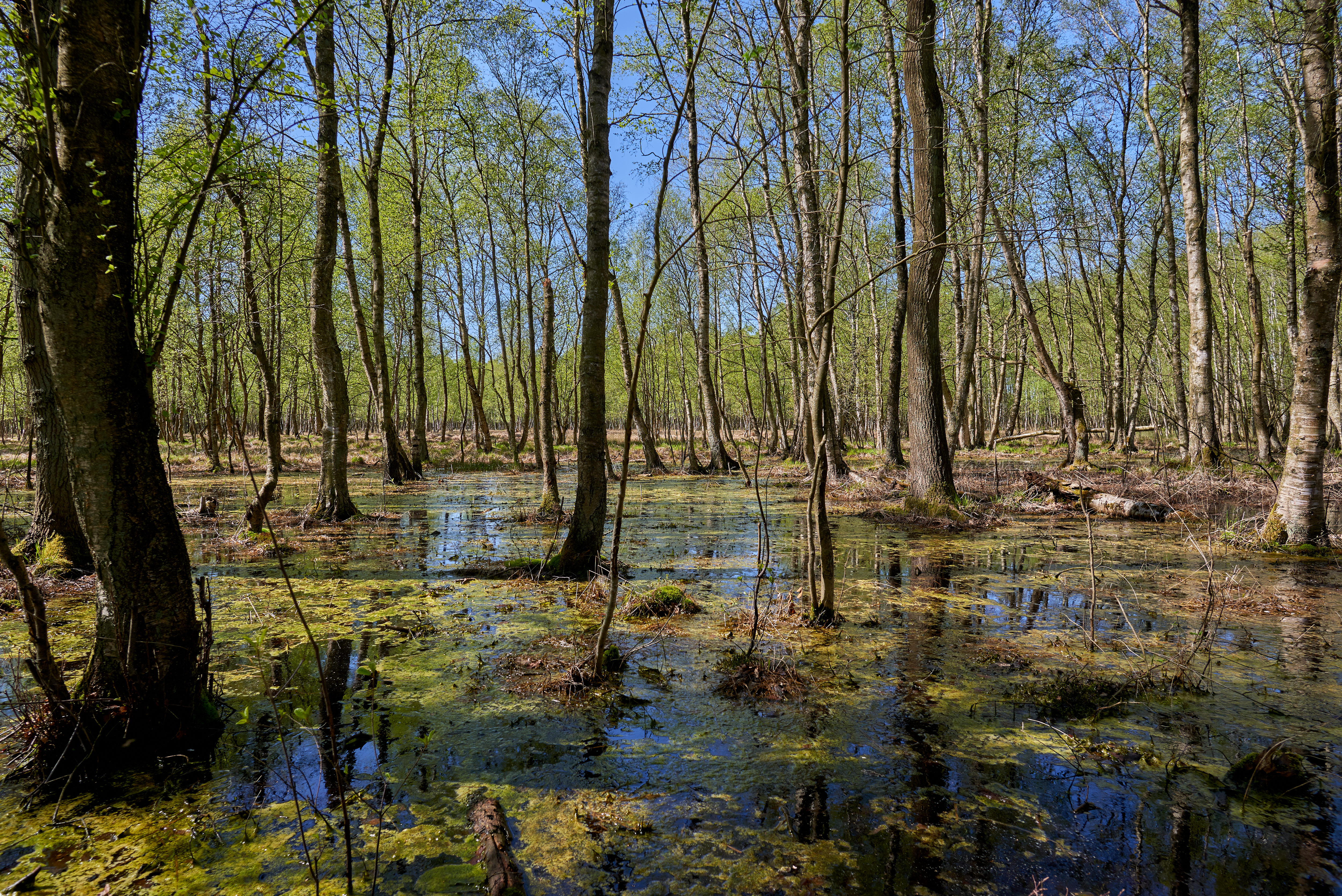 Wetland forest adjoining the peat bog area in in Kaltenhofer Moor nature reserve, FFH area 1526-353 'Natural Forest Stodthagen and adjoining peat bogs'.